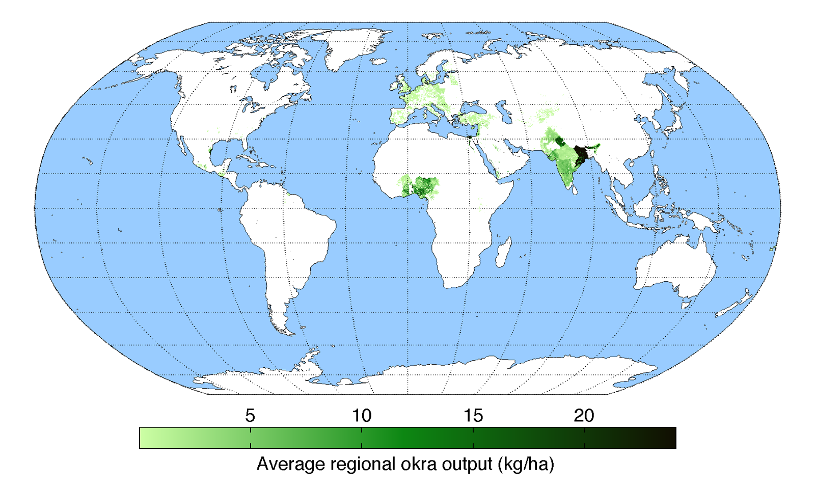 Map of okra production (average percentage of land used for its production times average yield in each grid cell) across the world compiled by the University of Minnesota Institute on the Environment with data from: Monfreda, C., N. Ramankutty, and J.A. Foley. 2008. Farming the planet: 2. Geographic distribution of crop areas, yields, physiological types, and net primary production in the year 2000. Global Biogeochemical Cycles 22: GB1022